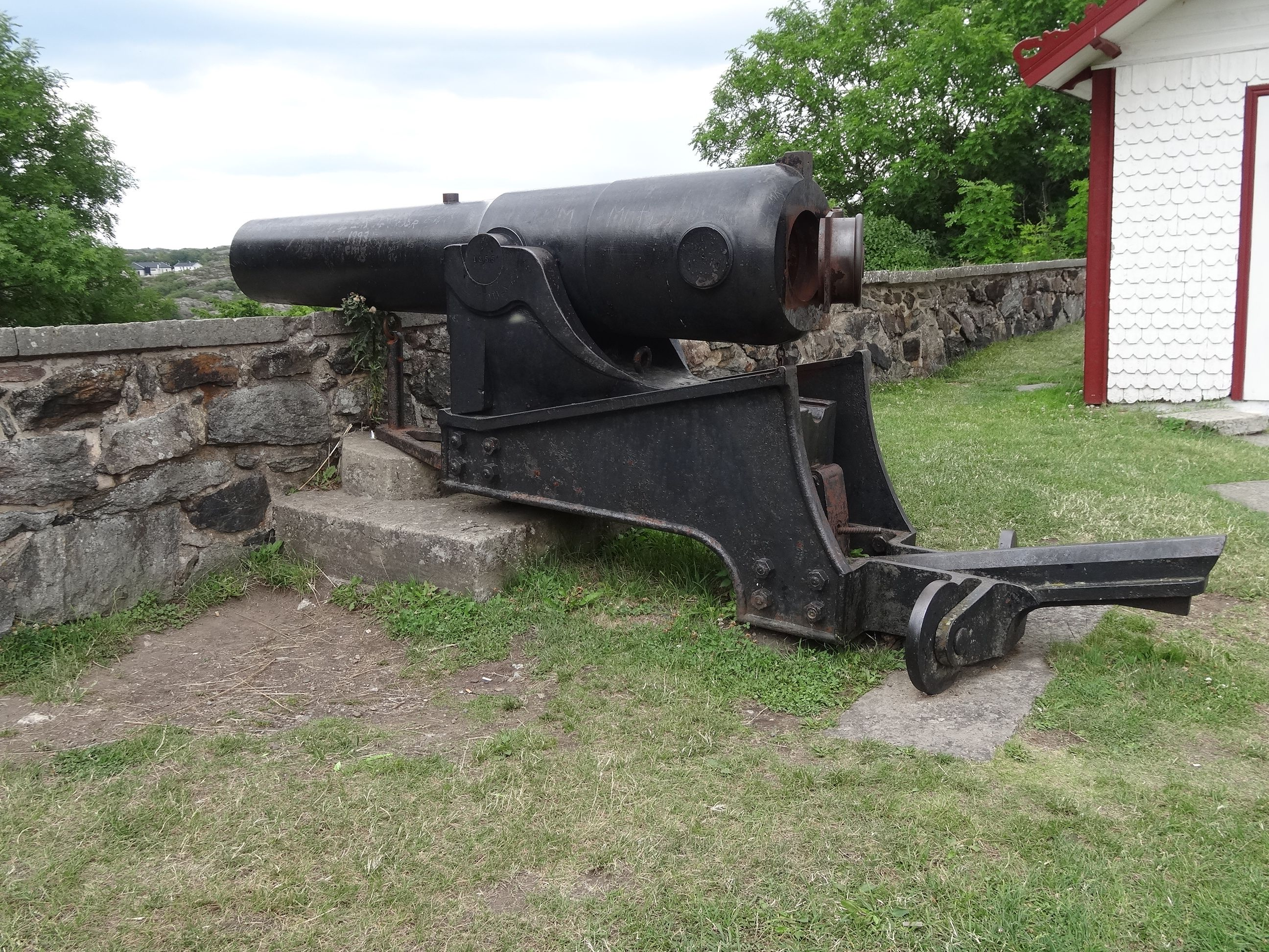 Smooth bored breech loaded Wahrendorff gun from 1855 at Karlsten fortress, Marstrand, Sweden.